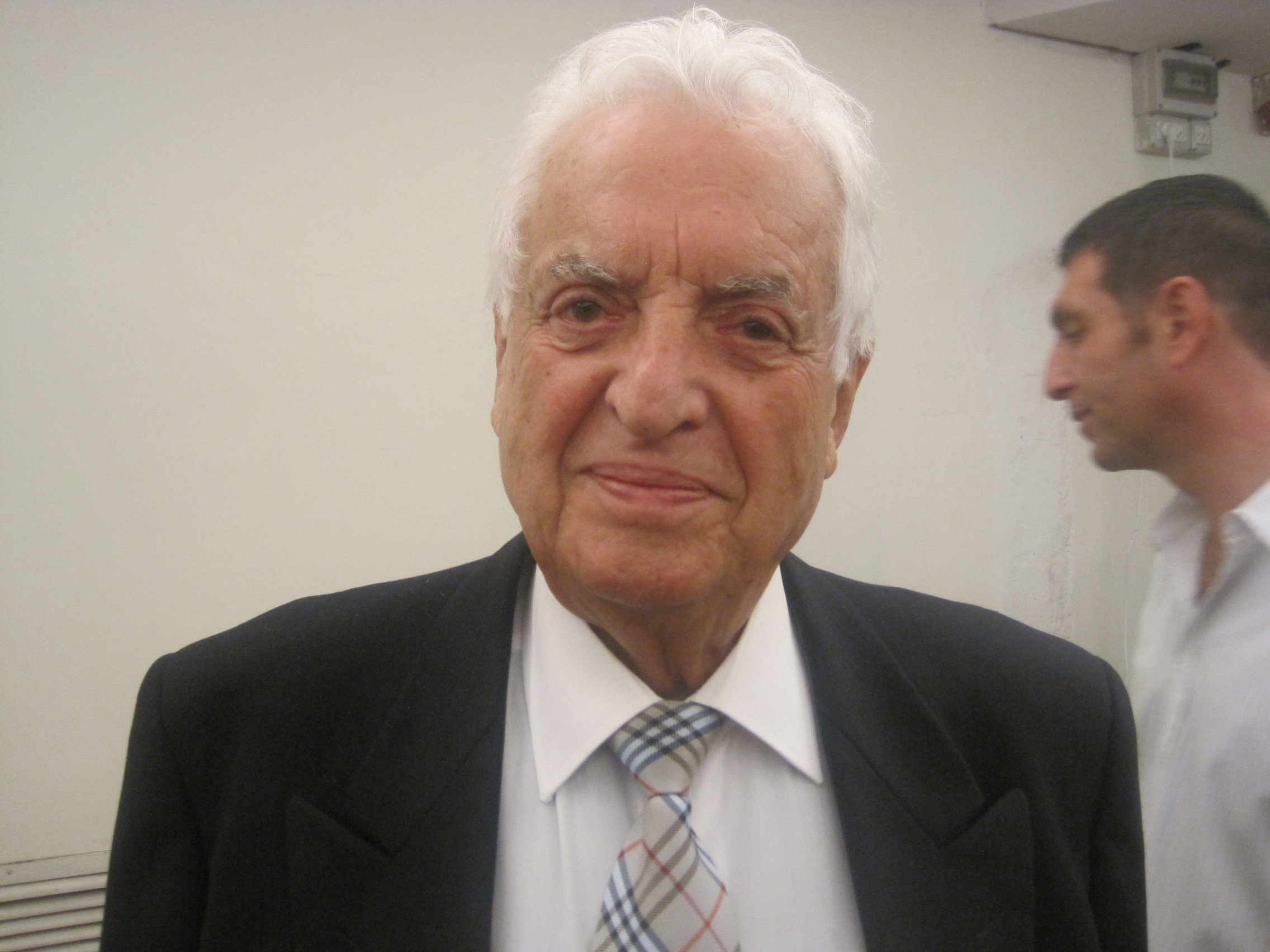 Elef Millim - Dizengof Center